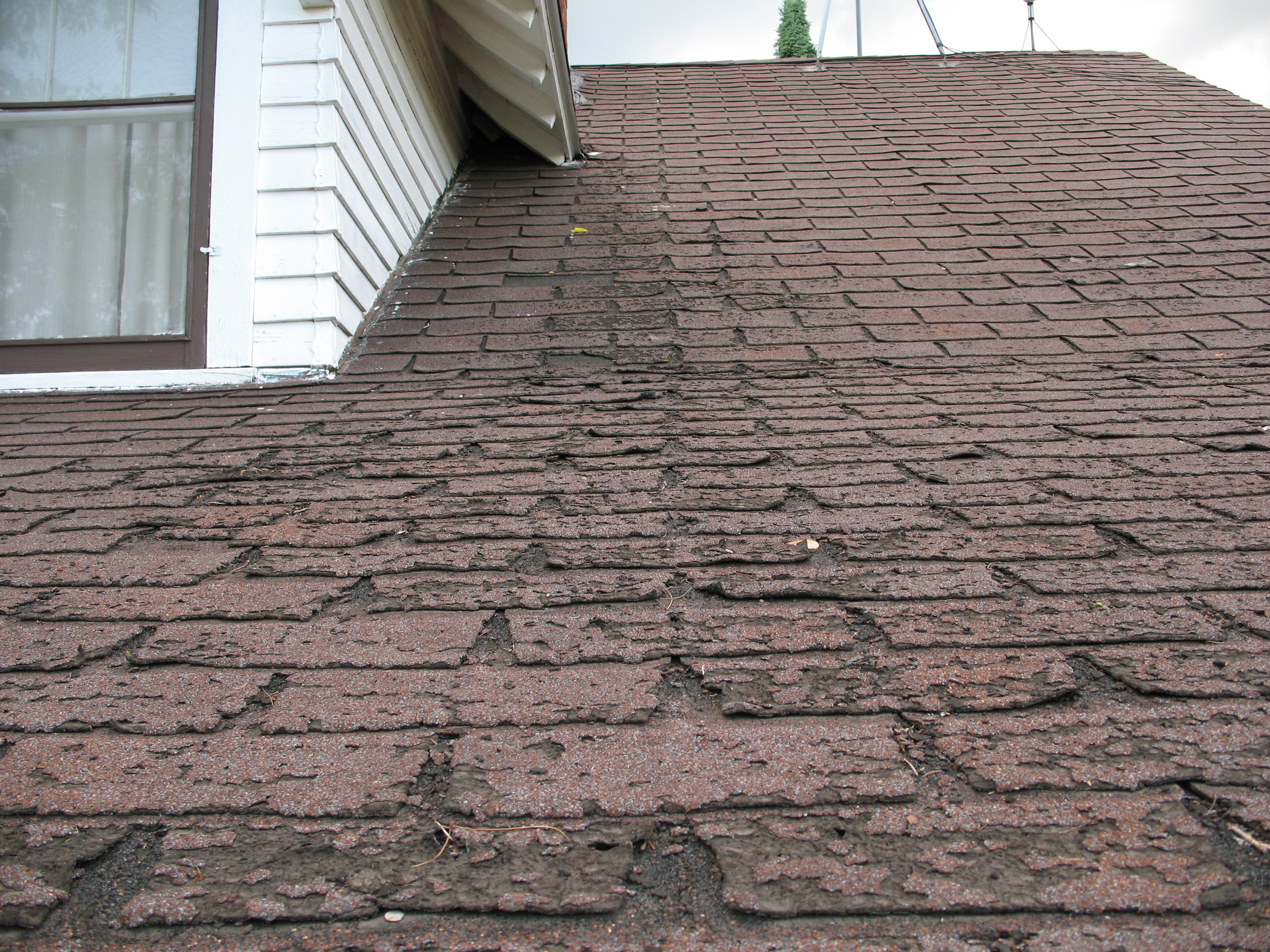 Example of faster shingle failure along a roof eave where more water is channeled and which accelerates the washing away of the asphalt saturating the paper fiber of the shingles. As the asphalt is lost the paper begins to visibly shrink and contract as seen in the foreground.